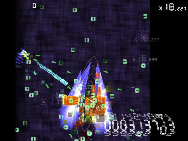 Screenshot of the freeware video game Gunroar This image was uploaded in the JPEG format even though it consists of non-photographic data. This information could be stored more efficiently or accurately in the PNG or SVG format. If possible, please upload a PNG or SVG version of this image without compression artifacts, derived from a non-JPEG source (or with existing artifacts removed). After doing so, please tag the JPEG version with Superseded|NewImage.ext and remove this tag. This tag should not be applied to photographs or scans. For more information, see BadJPEG .